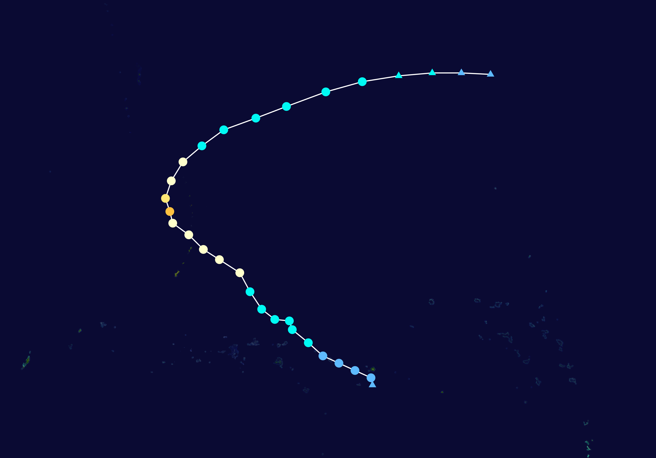 Track map of Typhoon Kong-rey of the 2007 Pacific typhoon season. The points show the location of the storm at 6-hour intervals. The colour represents the storm's maximum sustained wind speeds as classified in the Saffir–Simpson scale (see below), and the shape of the data points represent the nature of the storm, according to the legend below. Saffir–Simpson scale Tropical depression≤38 mph≤62 km/h Category 3111–129 mph178–208 km/h Tropical storm39–73 mph63–118 km/h Category 4130–156 mph209–251 km/h Category 174–95 mph119–153 km/h Category 5≥157 mph≥252 km/h Category 296–110 mph154–177 km/h Unknown Storm type Tropical cyclone Subtropical cyclone Extratropical cyclone / Remnant low / Tropical disturbance / Monsoon depression